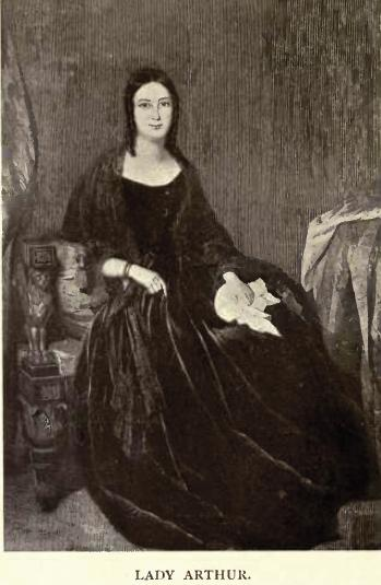 Lady Eliza Orde Ussher Arthur wife of Major-General Sir George Arthur